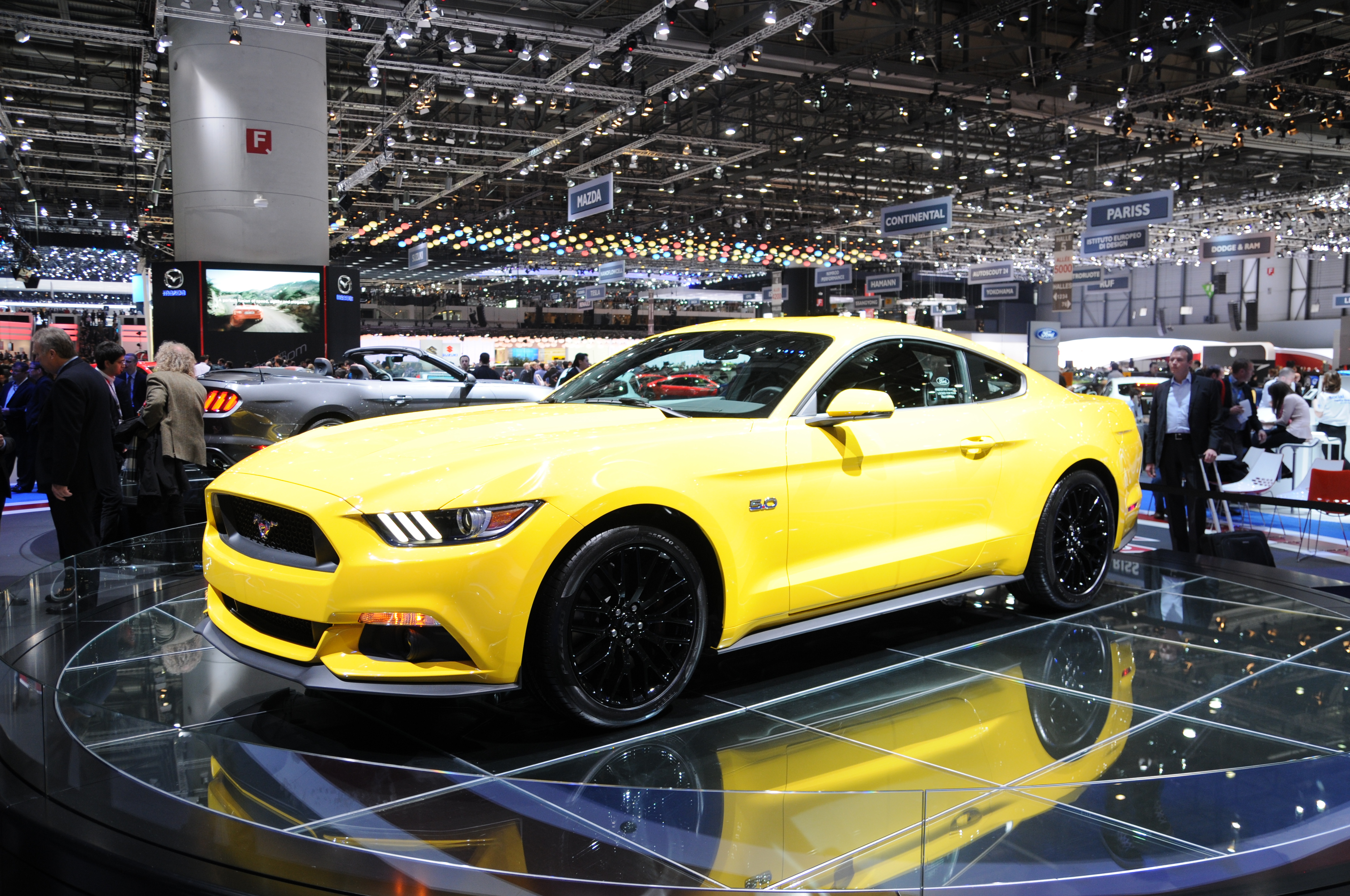 Geneva Motor Show 2014 (photo taken on the first press day)